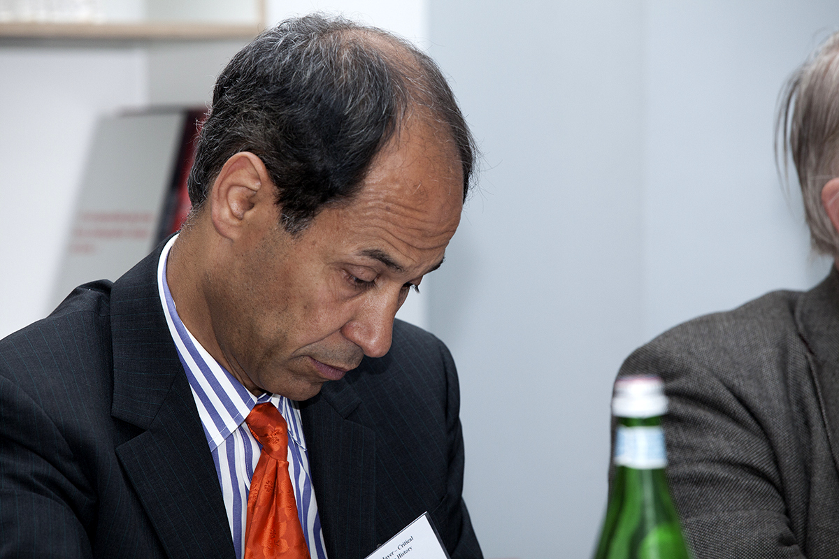 Dr Sam Cherribi, sociologist, at the Luxembourg Institute for European and International Studies conference Arno J. Mayer – Critical Junctures in Modern History, 10-11 May 2013, Casino Luxembourg.